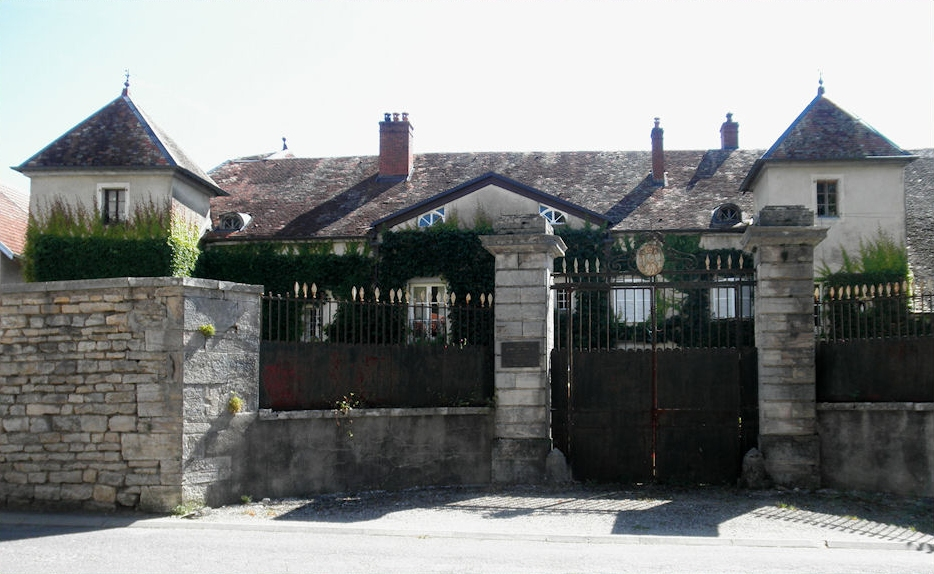 Castle of Moncey, 25870 Moncey, France